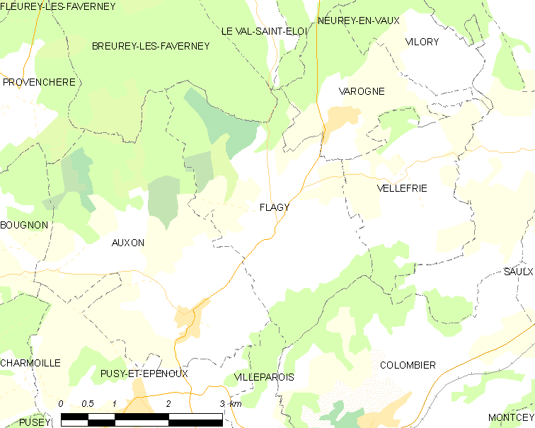 Map of French municipality